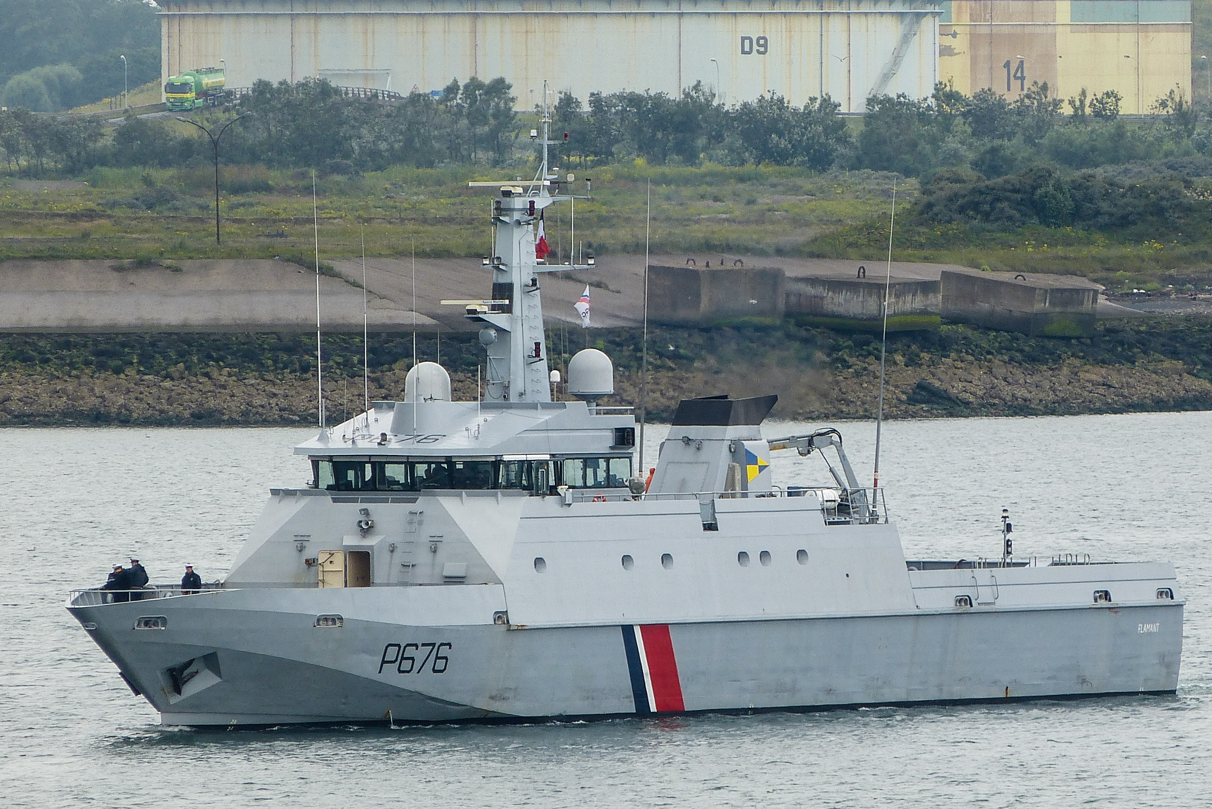 French Navy Flamant Class P676 entering Dunkirk harbour